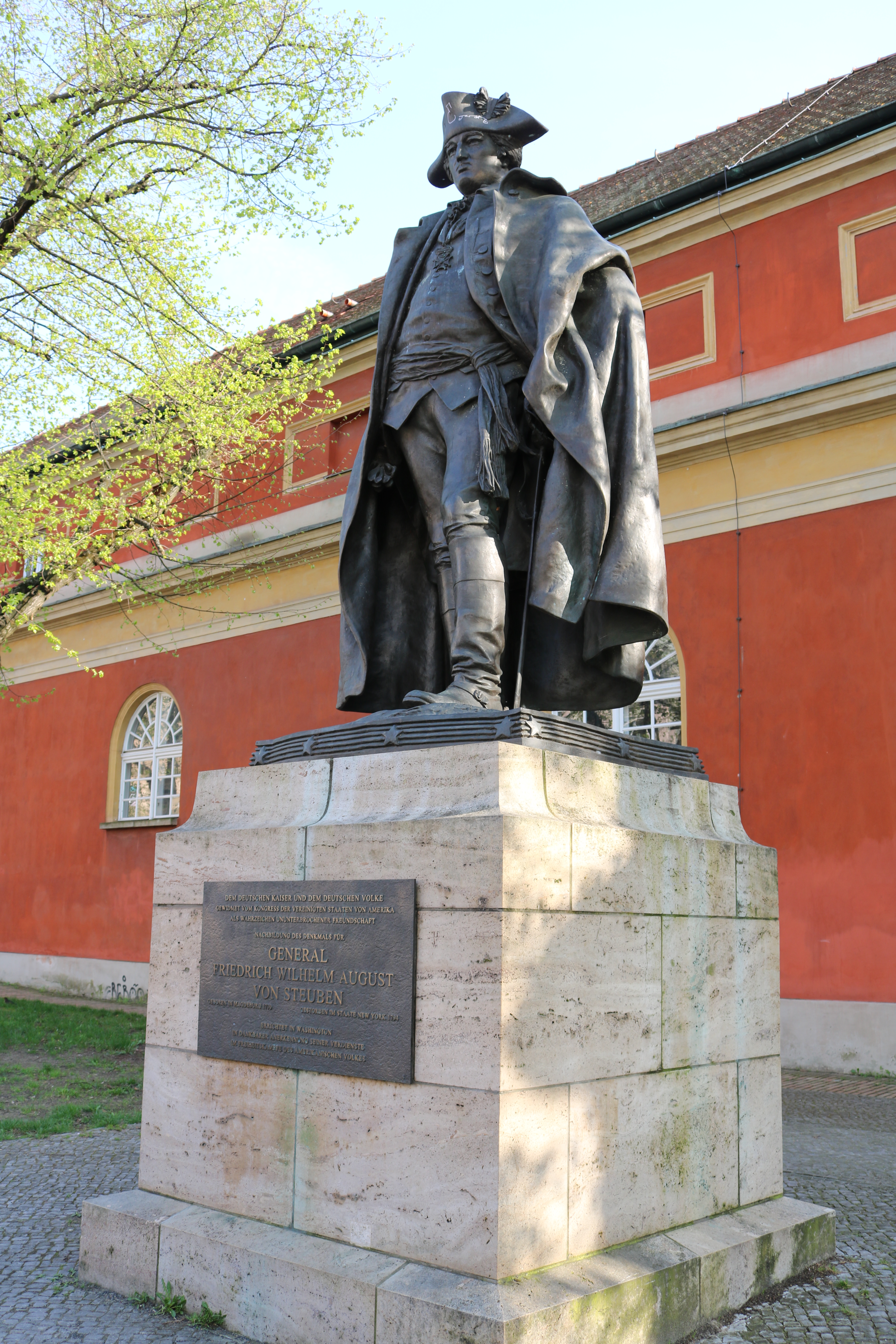 Monument to the General Friedrich Wilhelm von Steuben in Potsdam. April 2018.